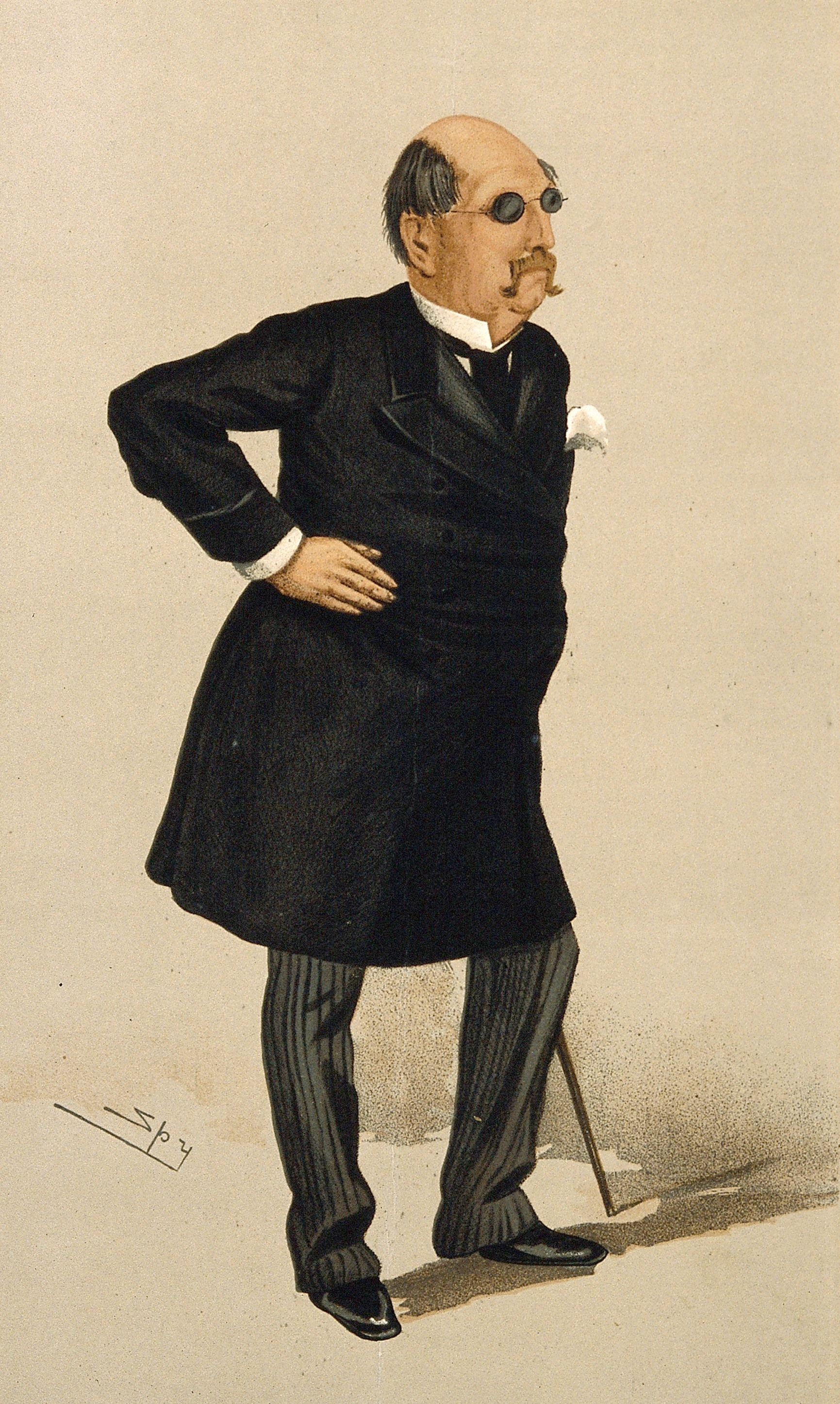 Caricature of Sir William Tindal Robertson Kt MD FRCP MRCS JP MP. Caption read "Brighton".